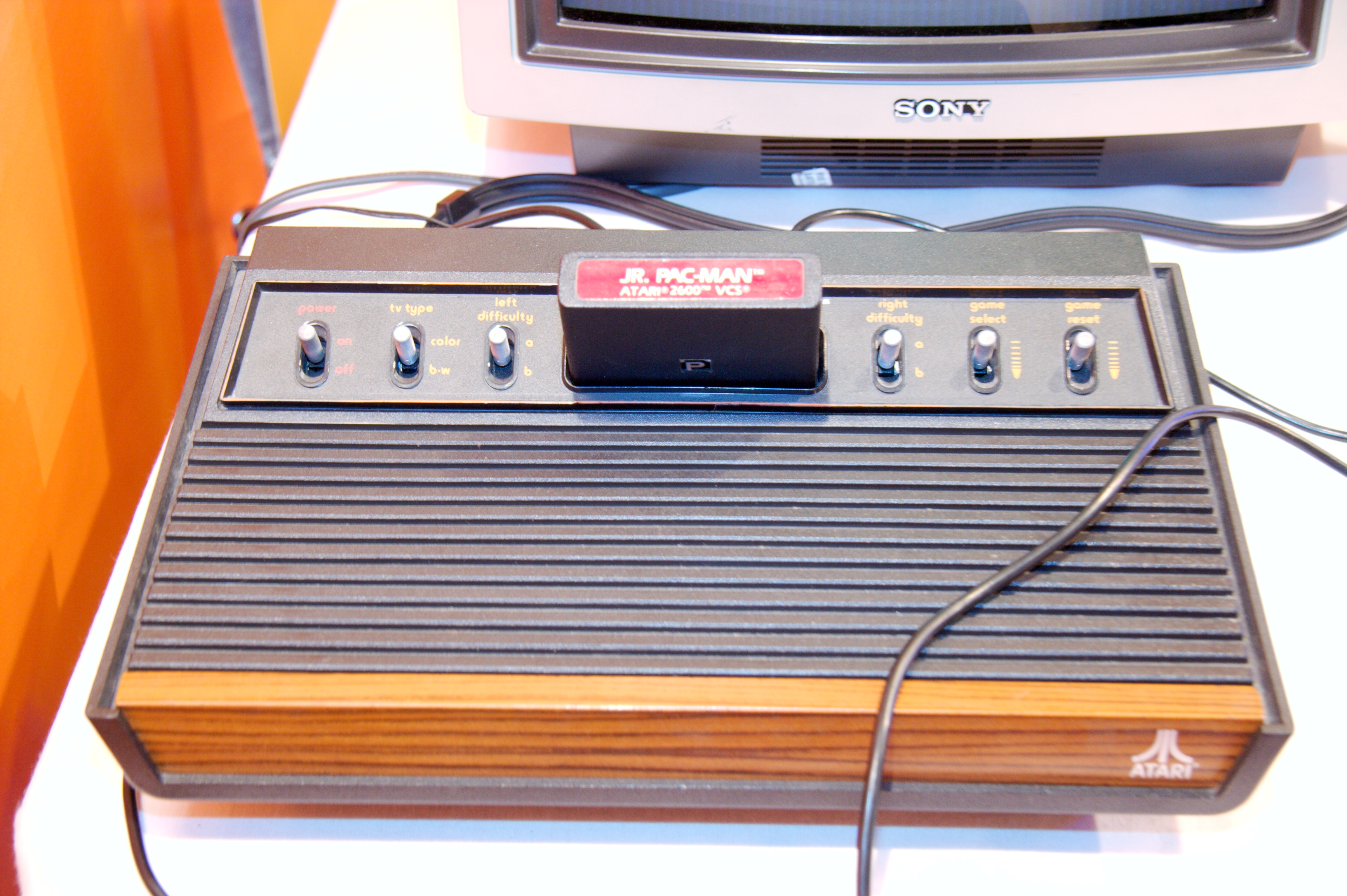 Atari 2600 with JR. Pac-Man cartridge. Festival du jeu vidéo 2008 (video game festival) (Paris, France).